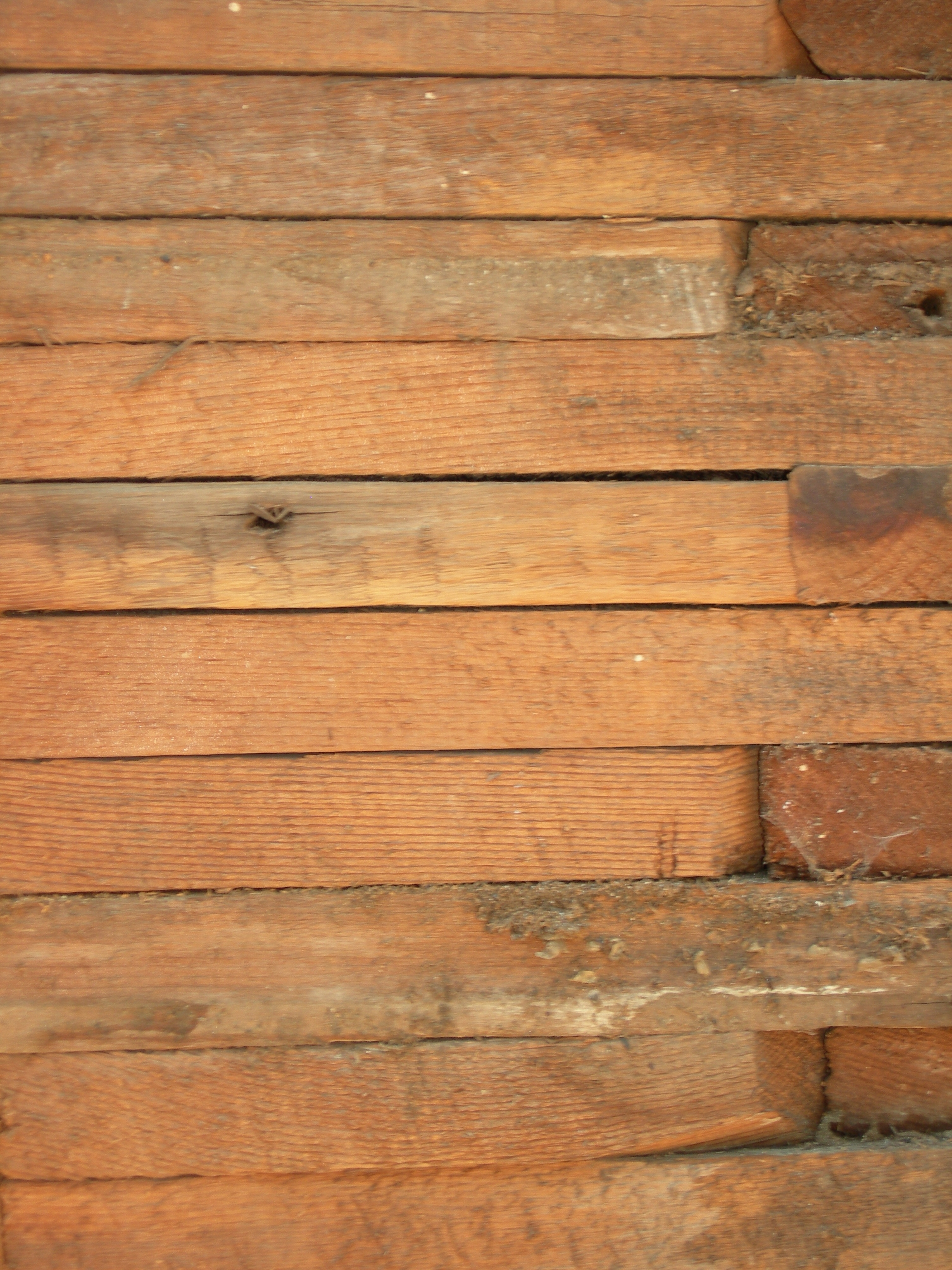 Stacked 1"x7" oak plank wall at Wildfell, a historic home in Darlington, Maryland.